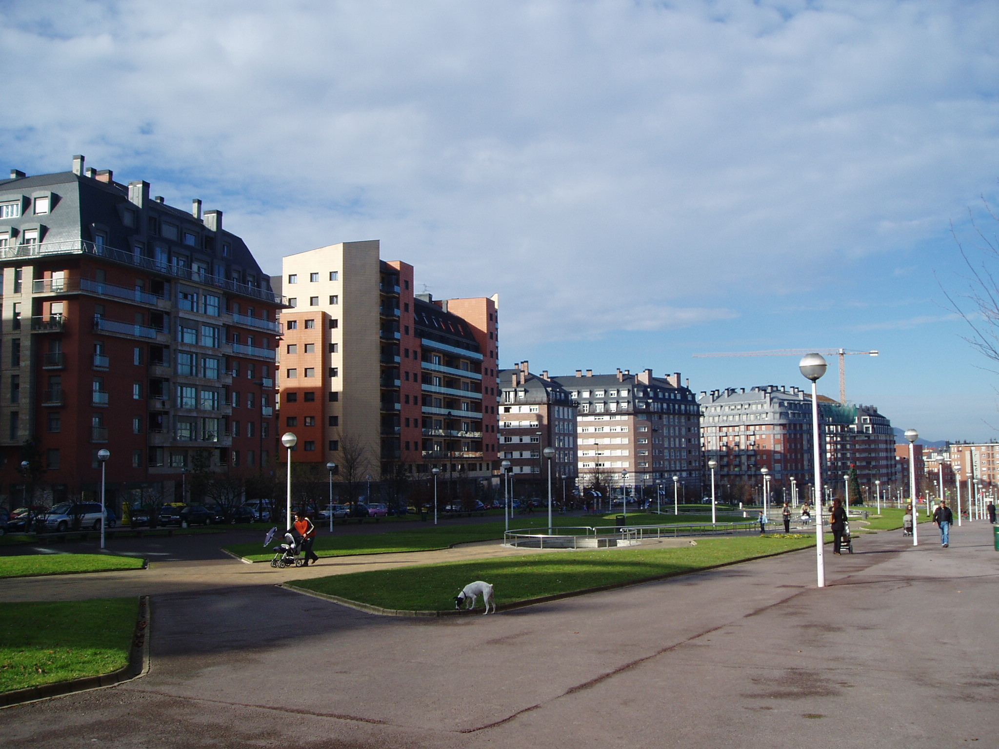 Gernika gardens. Miribilla (Bilbao).